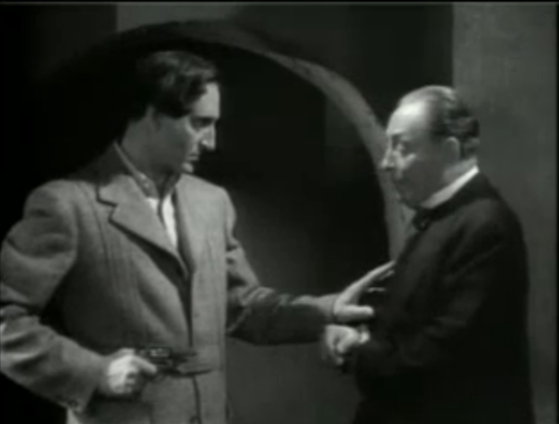 Scene from Sherlock Holmes and the Secret Weapon, showing Basil Rathbone as Sherlock Holmes and Lionel Atwill as Professor Moriarty